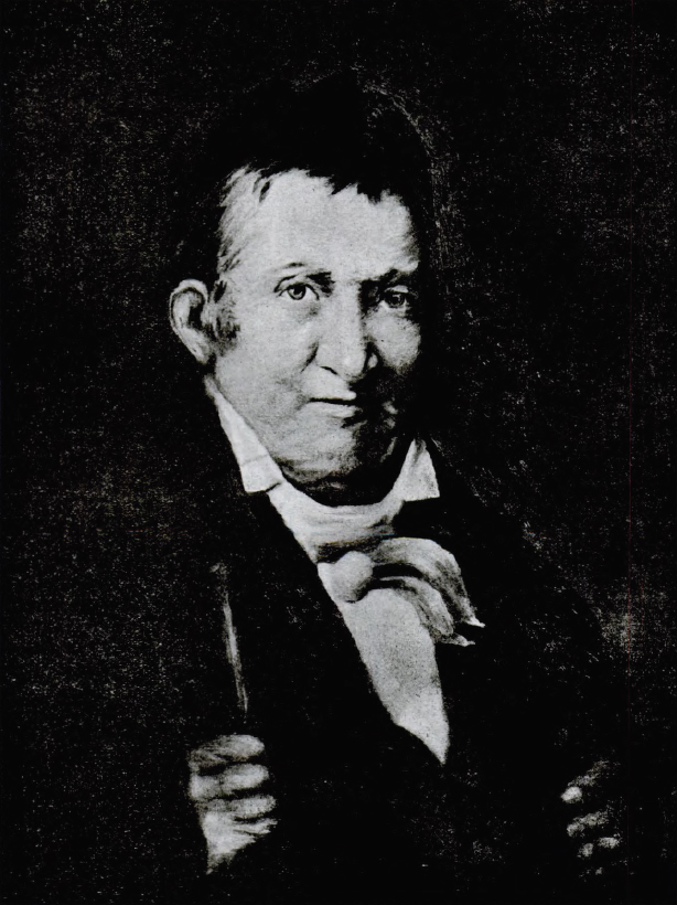 Frontiersman Simon Kenton